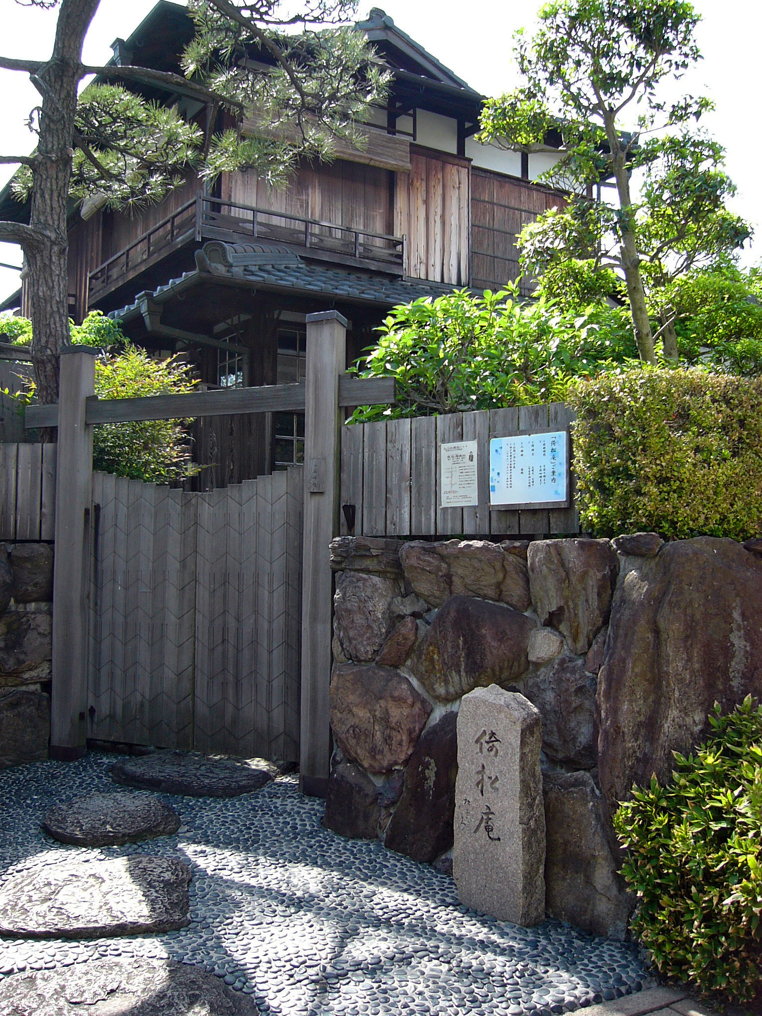 Wooden house known as "Ishōan" (倚松庵) in Kobe, Hyogo prefecture, Japan. It was named by the Japanese author Jun'ichirō Tanizaki after his beloved wife Matsuko (松子). Originally built in 1929, Tanizaki lived there from November 1936 through November 1943, during which period the renowned novel "Sasameyuki" (English title: "The Makioka Sisters") was partly written. In 1990 "Ishōan" was temporarily dismantled and re-built on the nearest different location in Kobe for the historical preservation. It is currently open to visitors every Saturday and Sunday, 10:00-16:00, admission free. For more information, see Ishoan's official website (Japanese).